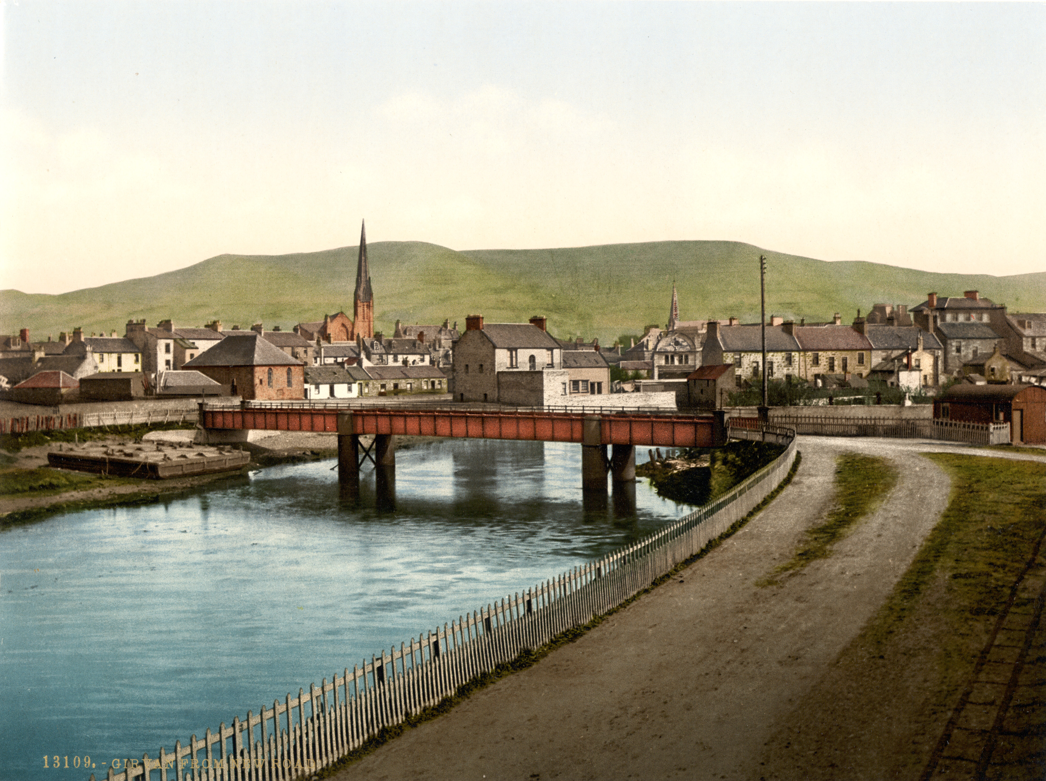 View of Girvan, Scotland, from New Road. 1 photomechanical print : photochrom, color.